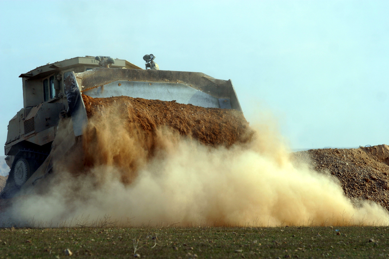 1st Marine Division